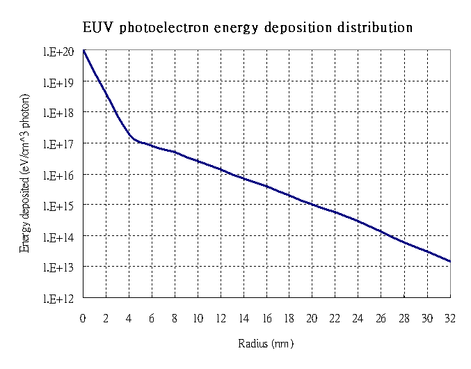 Ref: M. Kotera et al., Jap. J. Appl. Phys. vol. 47, pp. 4944-4949 (2008).